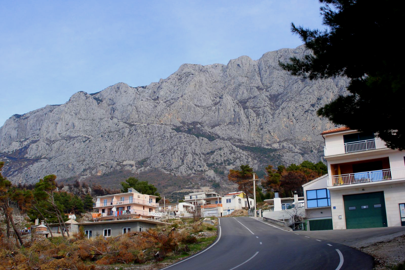 Veliko Brdo, a suburb of Makarska.